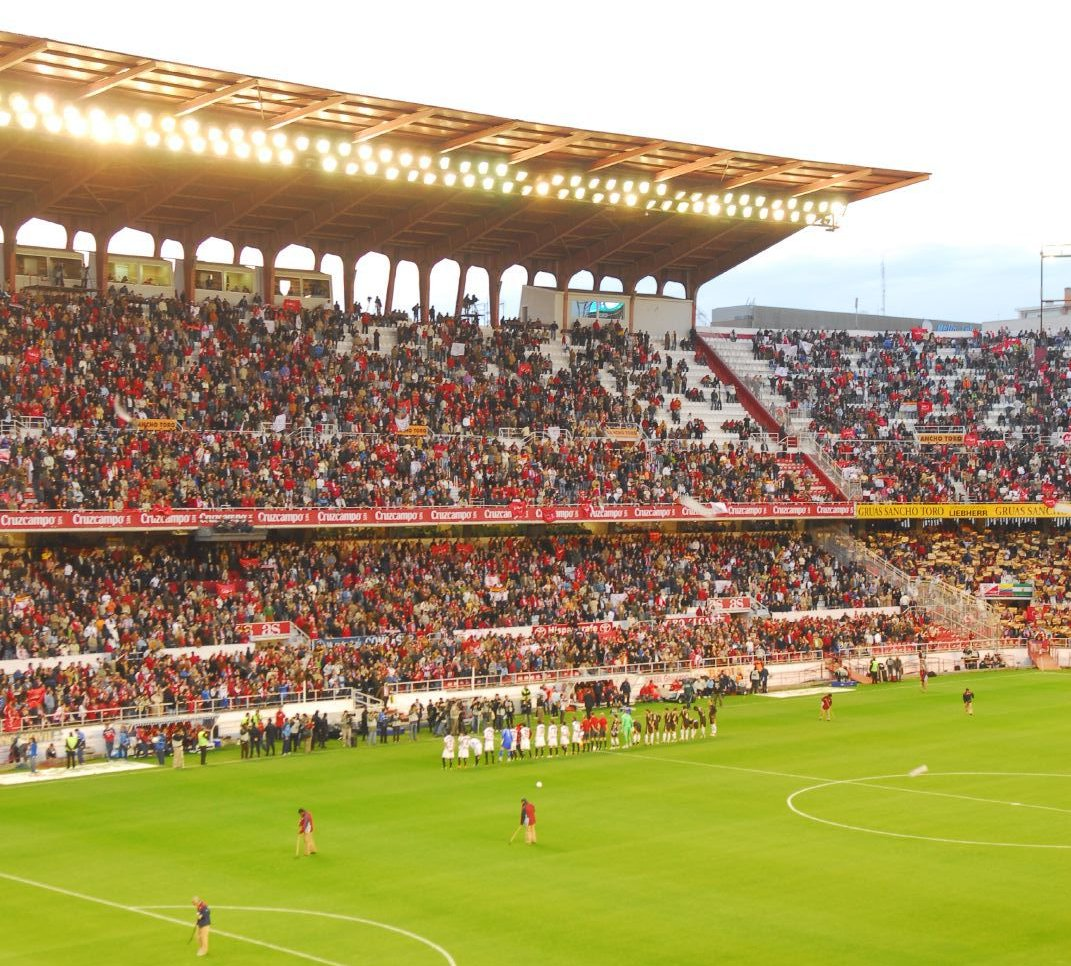 UEFA Cup 2006-07 match. Sevilla FC - Tottenham Hotspur FC.